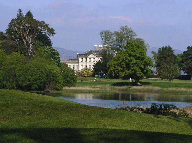 Rossdhu House View of Rossdhu House Loch Lomond